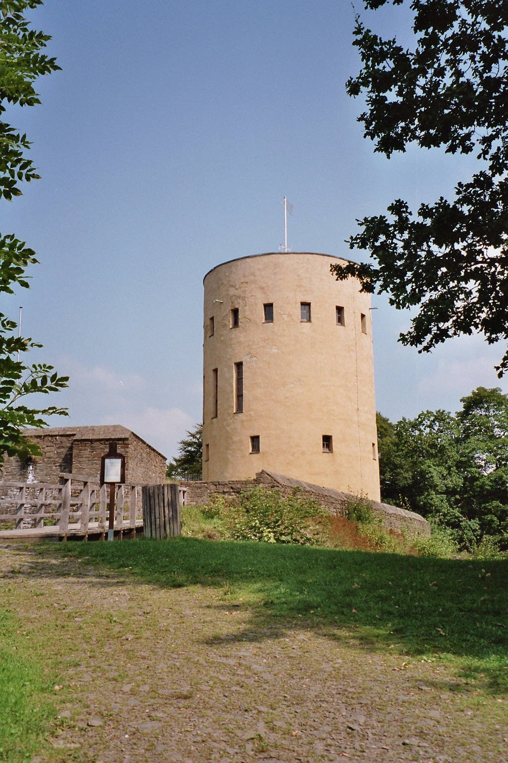 The tower of the Ginsburg in Germany